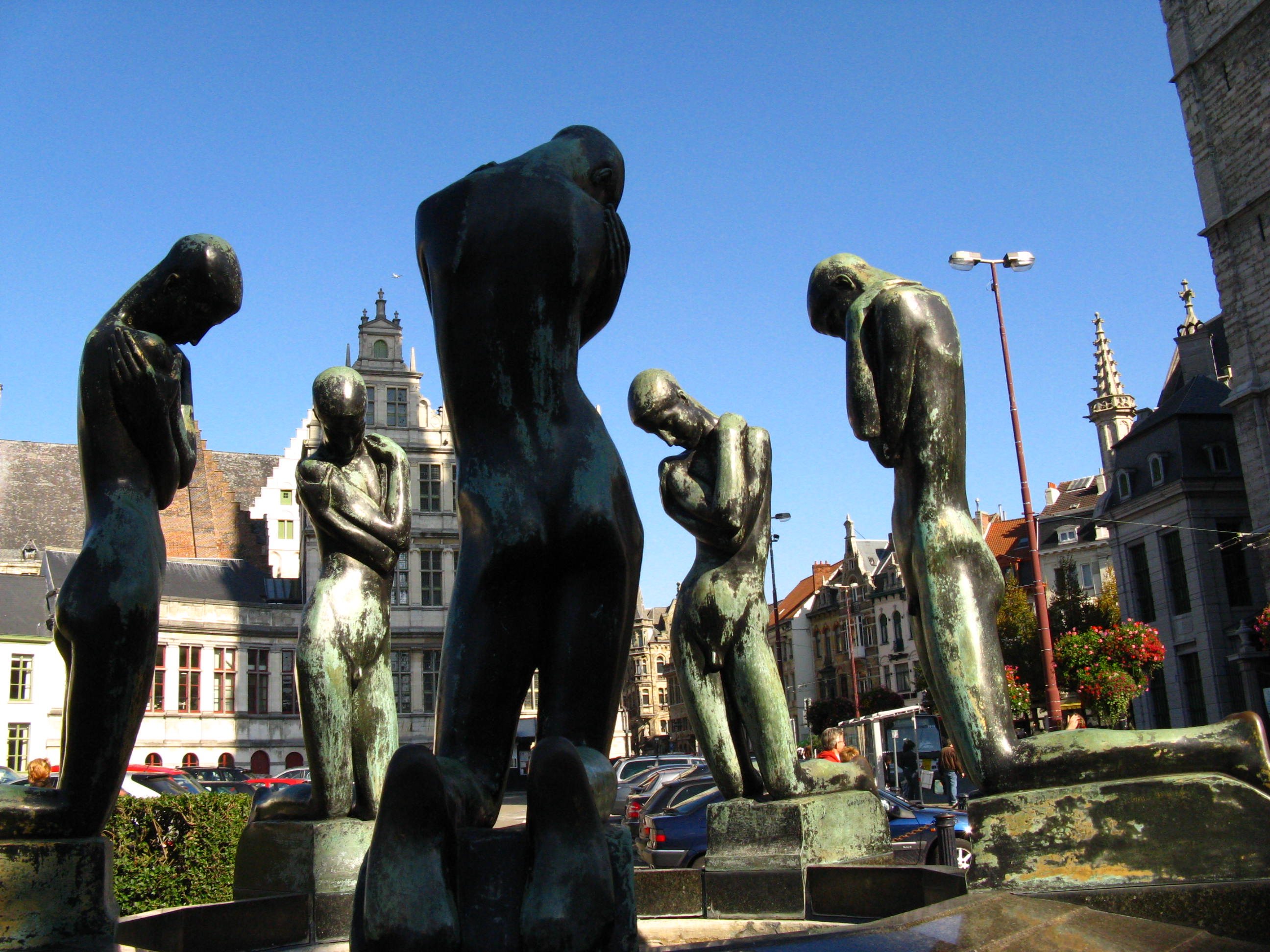 The Fountain of Youth by Georges Minne († 1941) on the Emile Braun Square in Ghent, Belgium.